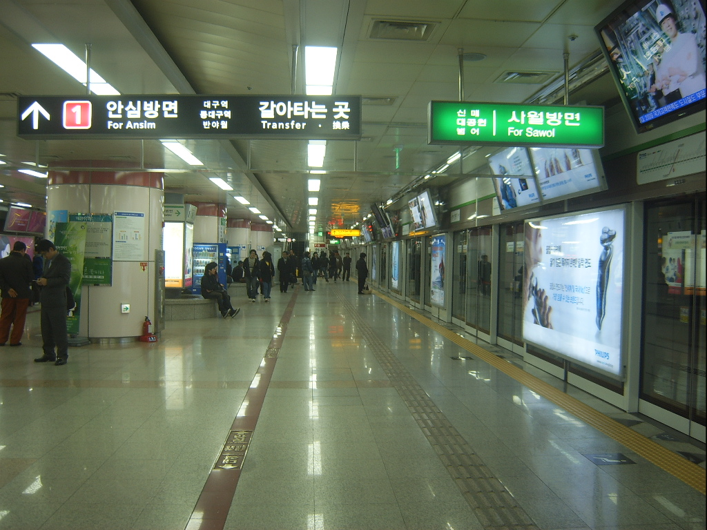 Daegu subway line 2 Banwoldang station platform